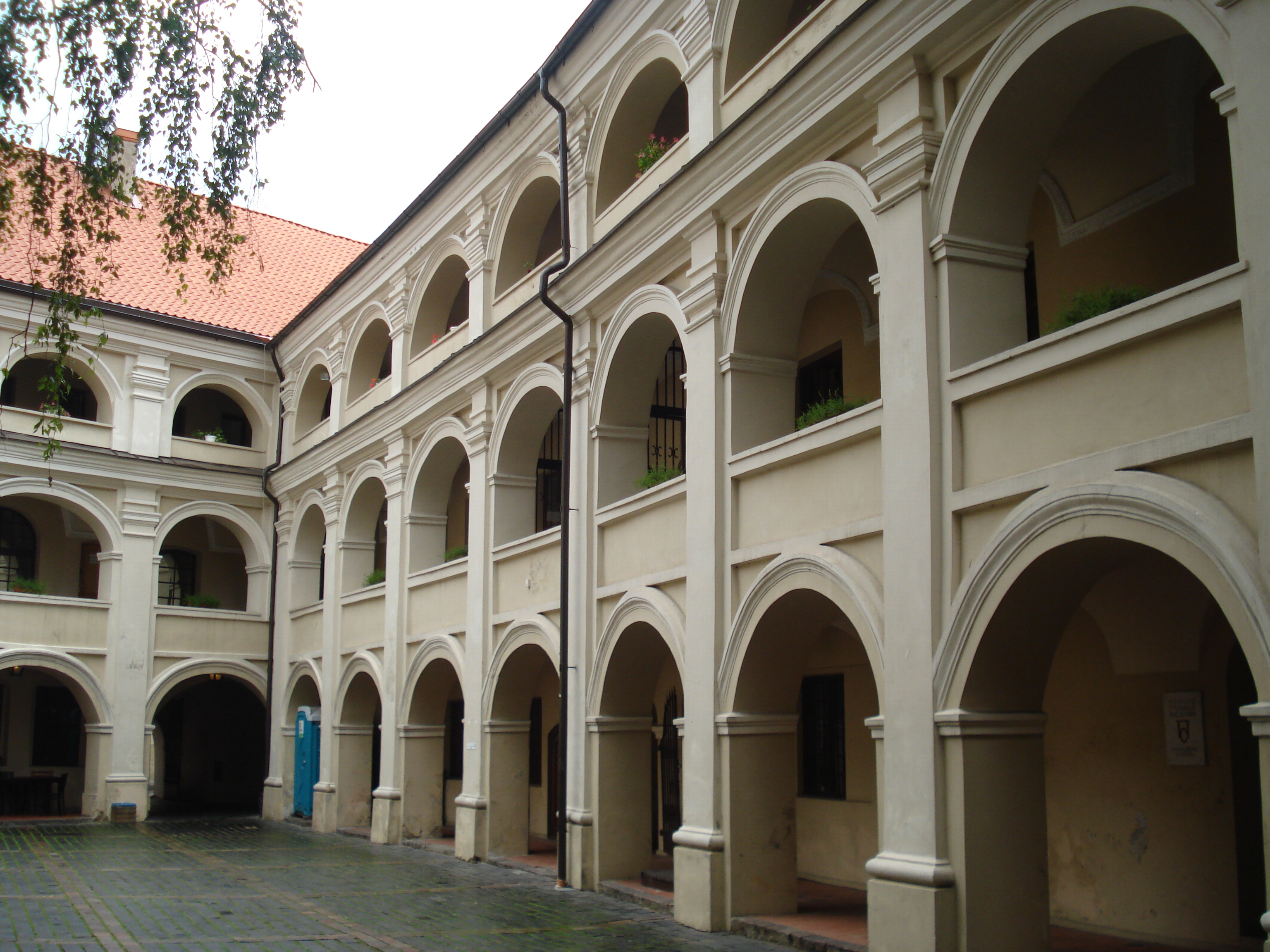 Alumnat in Vilnius (1622; Universiteto g. 4)